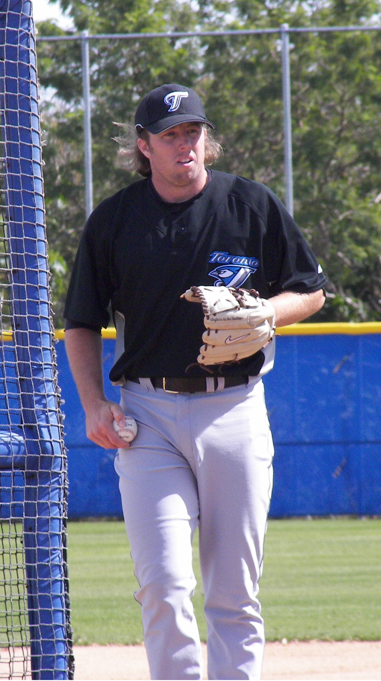 Toronto Blue Jays pitcher Jeremy Accardo during a spring training workout at the Blue Jays' spring training complex in Dunedin, Florida.